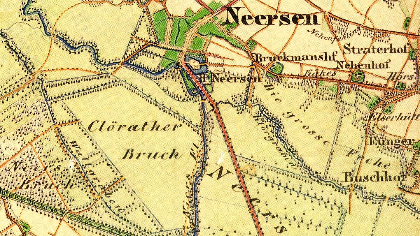 Topographic Map 1:25000 by Royal Prussian Land Survey, sheet 4704 (Viersen), snippet displaying the village of Neersen and the river Niers.